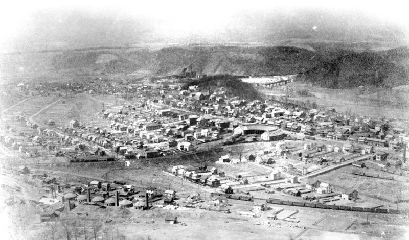 Photo of saxton, circa 1900.